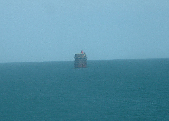 The Nab Tower - lighthouse